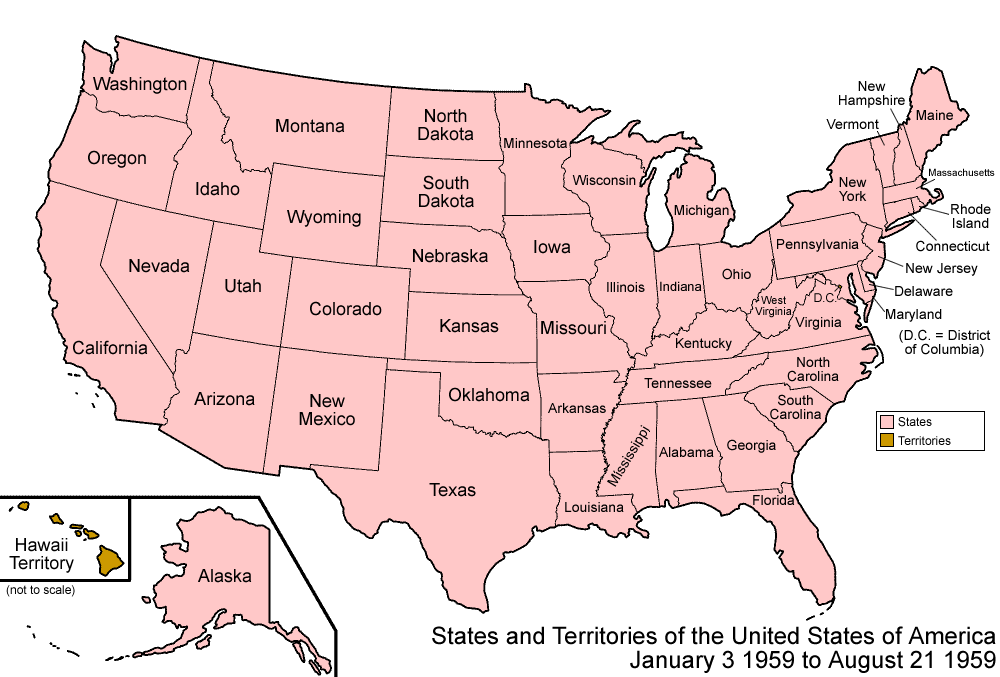 Map of the states and territories of the United States as it was from January 1959 to August 1959. On January 3 1959, Alaska Territory was admitted as the state of Alaska. On August 21 1959, Hawaii Territory was admitted as the state of Hawaii, completing the United States' present-day borders.